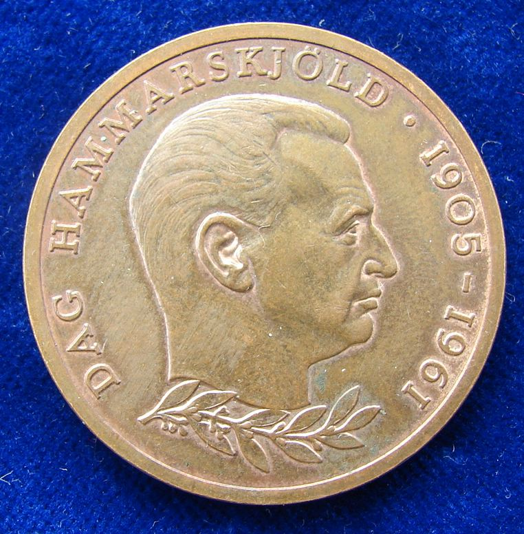 Denmark 1962 Bronze Medal ( obverse) Foreign Aid Program. Diameter of this medallion: 38 mm. It has been sold by Danish banks in support of the Danish Development Aid Program. Hammarskjöld, Dag, 1905 Jönköping Sweden - 1961 near Ndola, Northern Rhodesia (now Zambia), Africa Head r. above a laurel branch, around: "DAG HAMMARSKJÖLD · 1905 - 1961" Medallist: Harald Salomon, Jewish sculptor, Oslo, Norway, 1900 - 1990 Denmark.